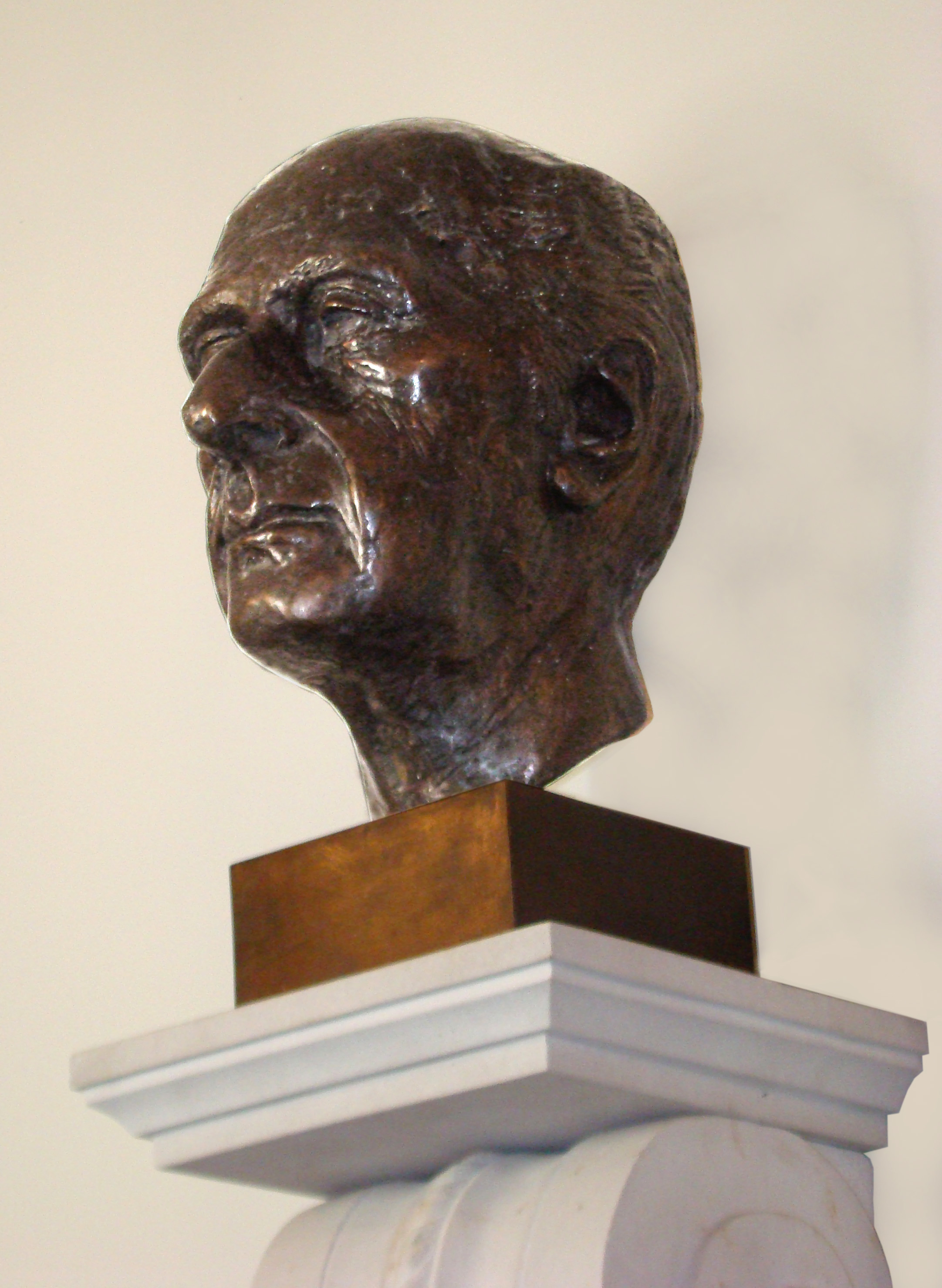 Andrzej Ciechanowiecki, Polish historian of art, memorial sculpture